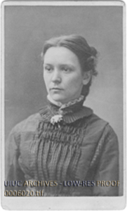 Mary L Page was the first woman to receive an accredited degree in Architecture in 1878.